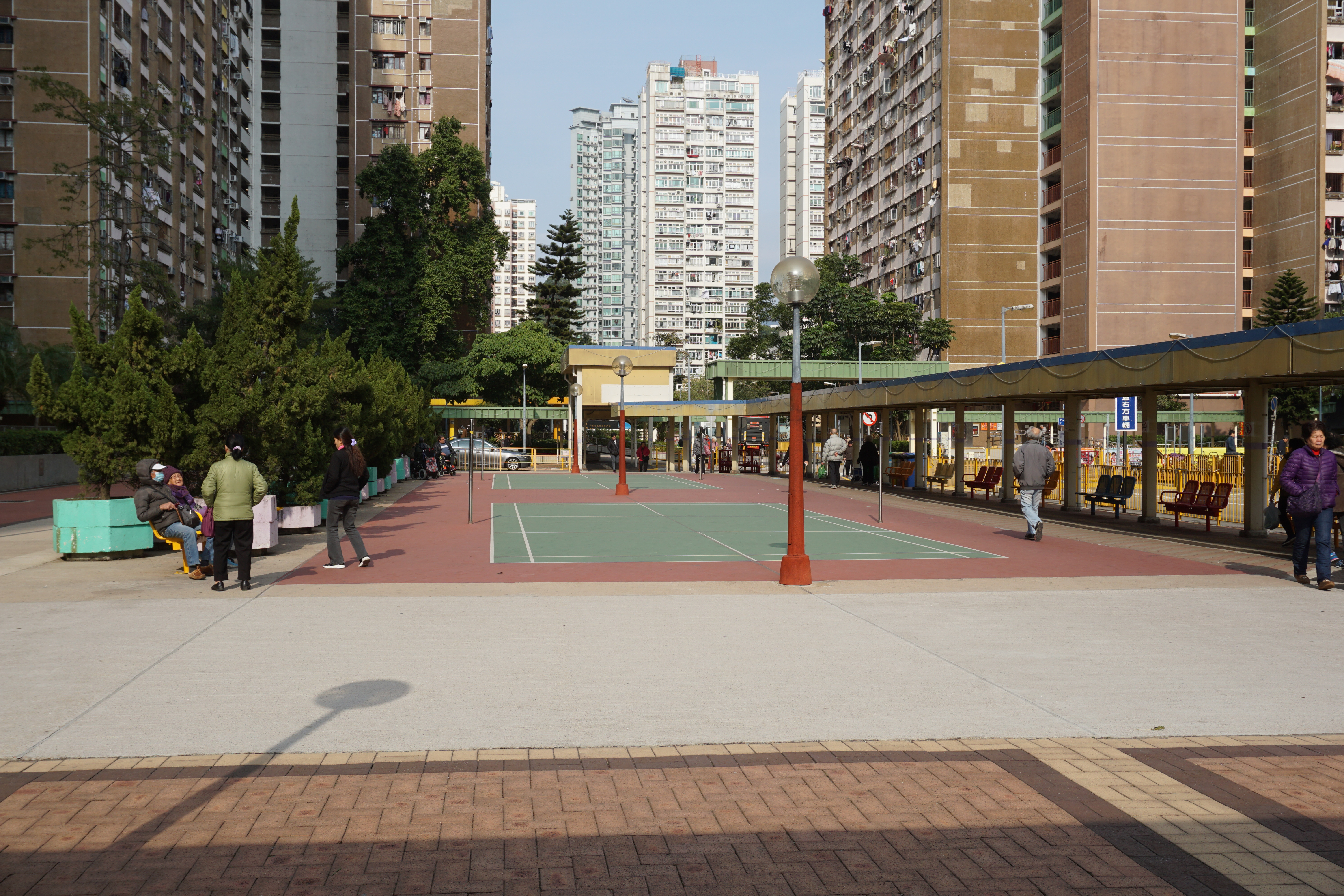 Sha Kok Estate in Sha Tin Wai, Hong Kong.